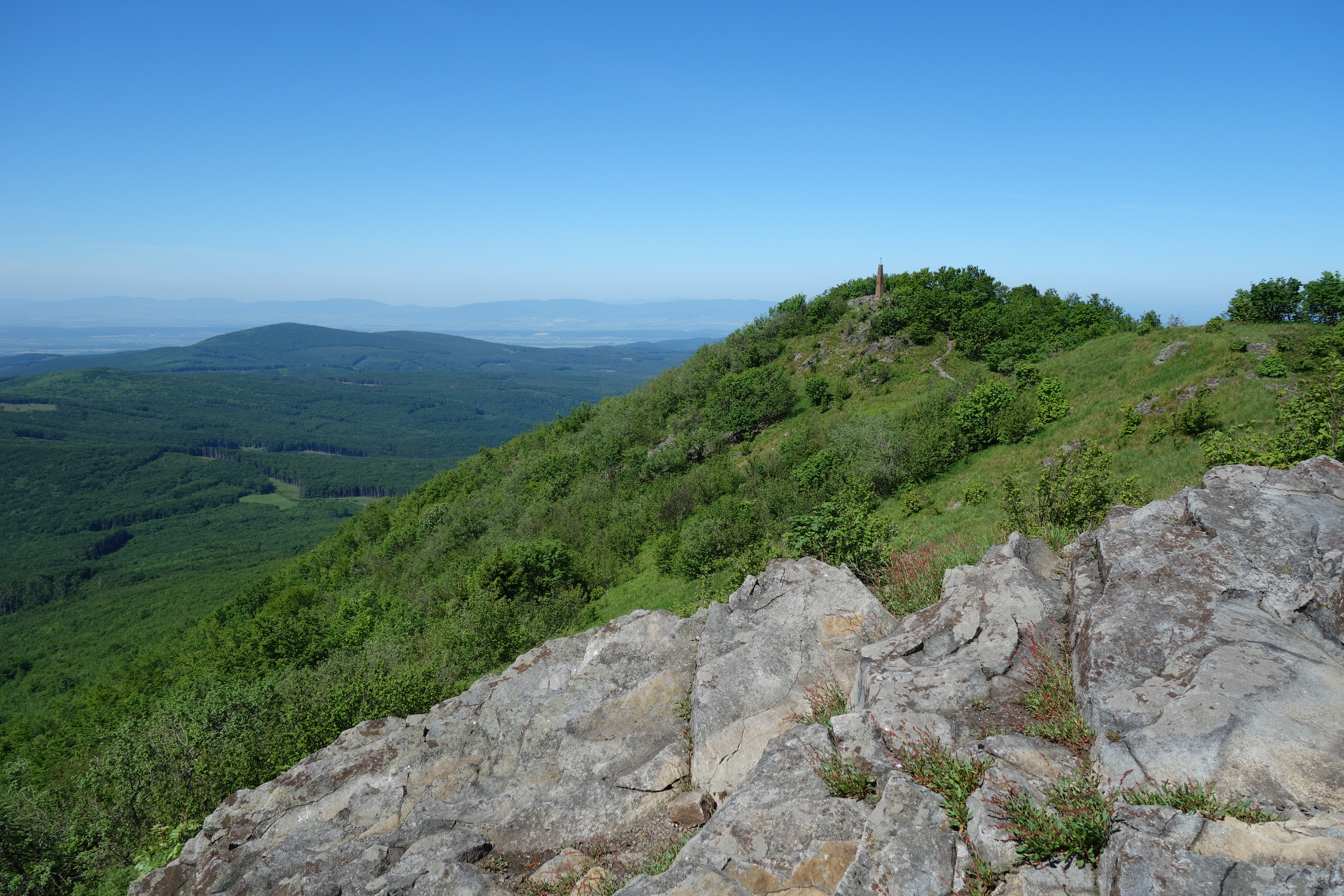 Vihorlat in June This is a photography of Natura 2000 protected area with ID SKUEV0025